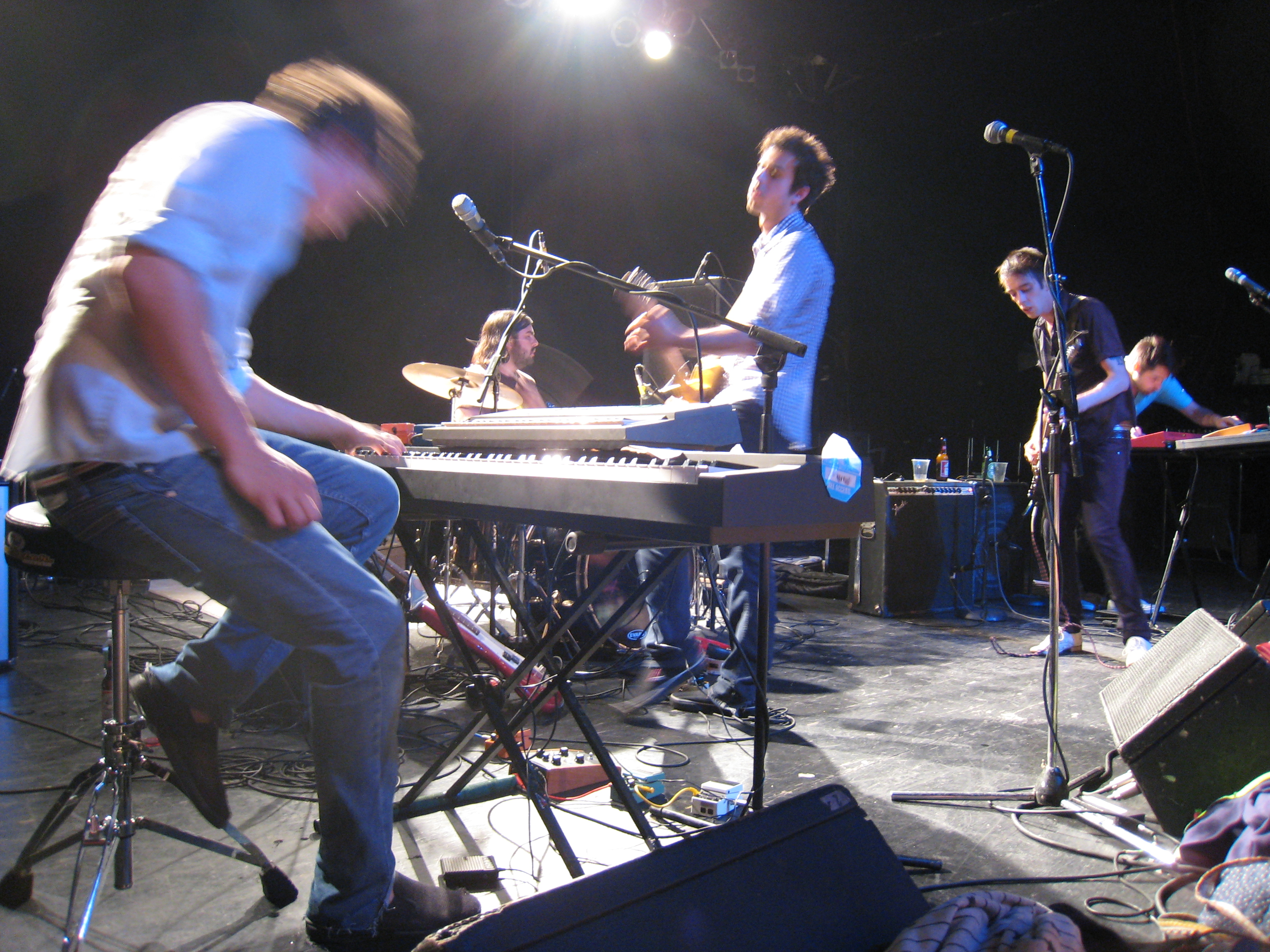 Taken on August 20th 2007 at the Theater of the Living Arts, Philadelphia, Pennsylvania. From left to right: Spencer Krug, Arlen Thompson, Dante DeCaro, Dan Boeckner, Hadji Bakara